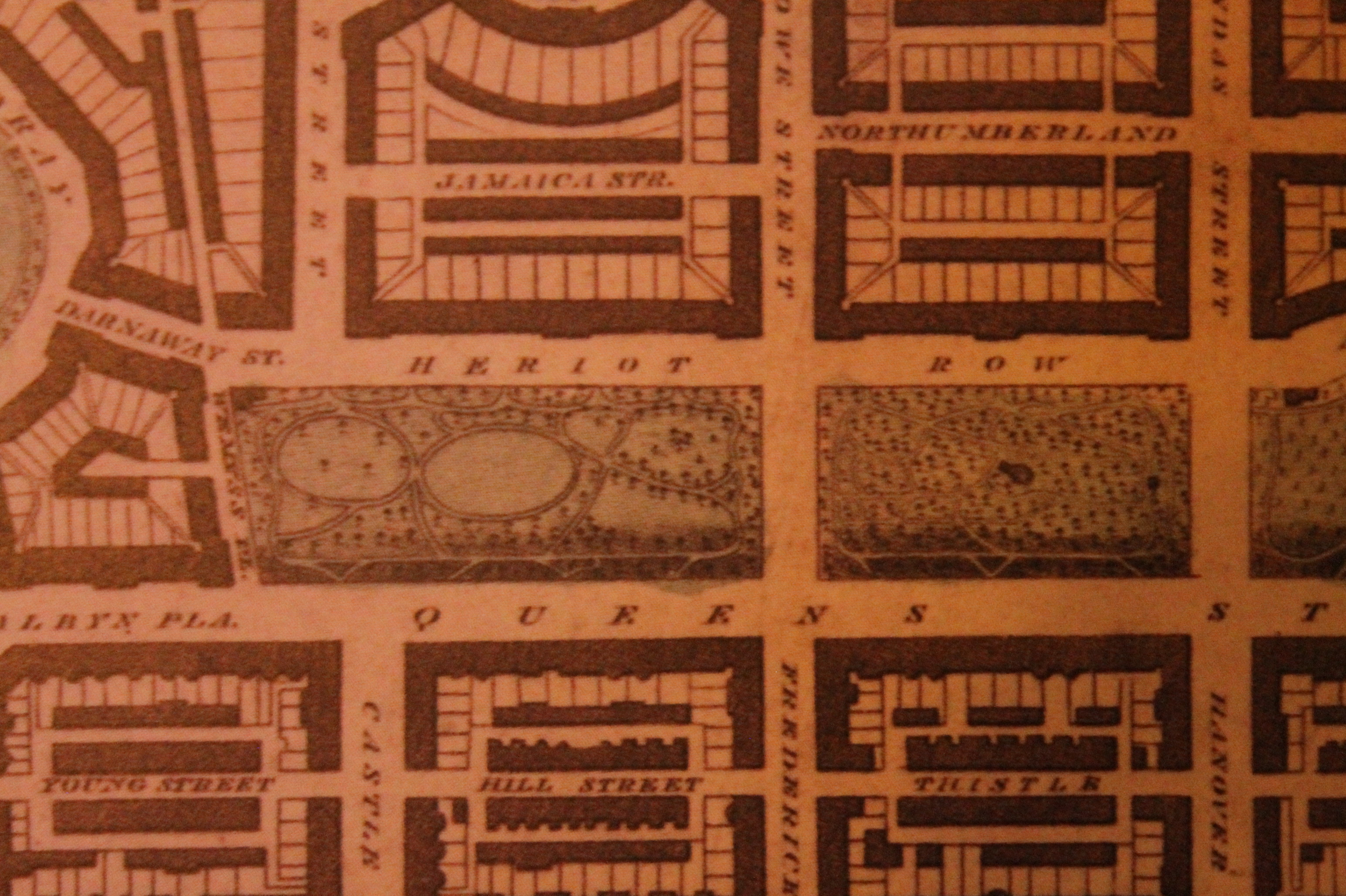 Map of Edinburgh by James Kay in 1836 - detail showing Heriot Row